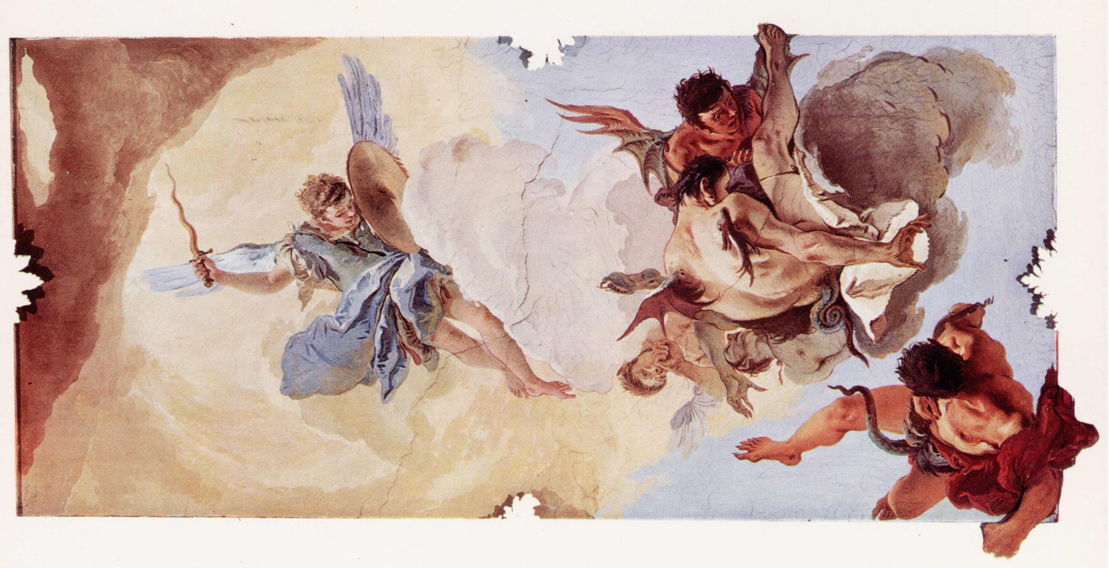 Udine, Italy. Palazzo Patriarcale - Galleria del Tiepolo: "Fall of the Rebel Angels" by Giovanni Battista Tiepolo.